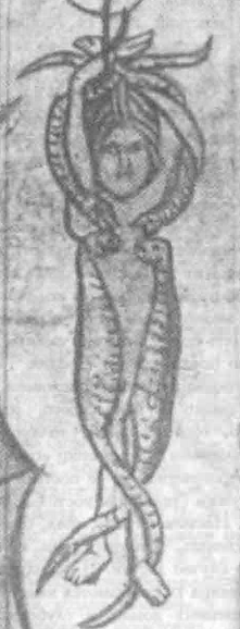 Bosorka. Icon of Last Judgment. XVII c. Eastern Slovakia